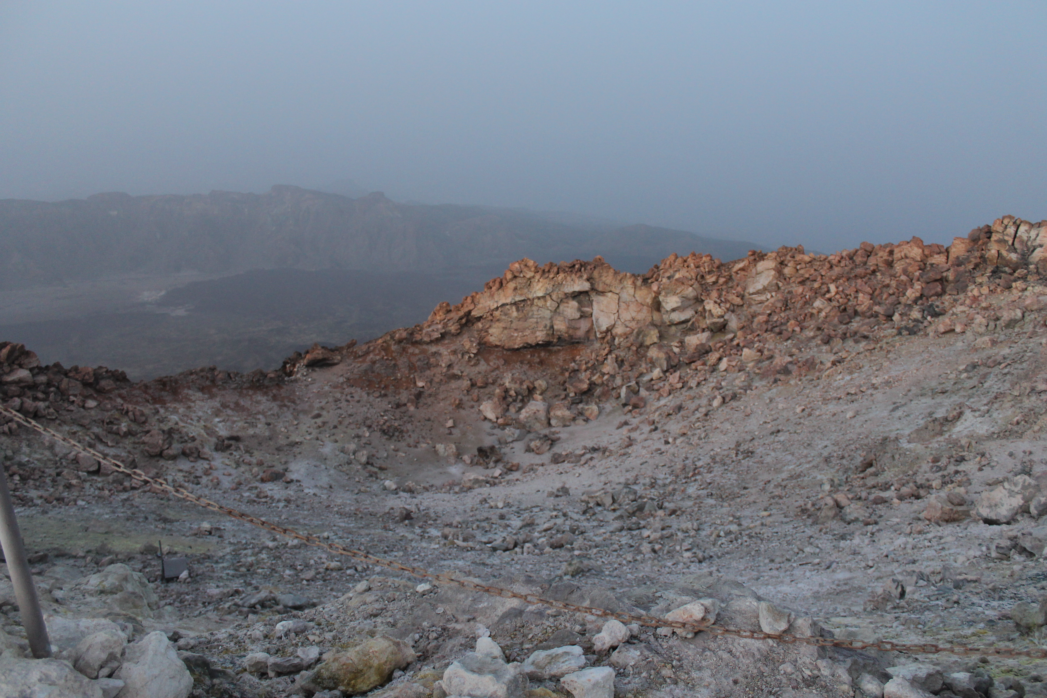 Mount Teide crater, Teneriffe, Spain